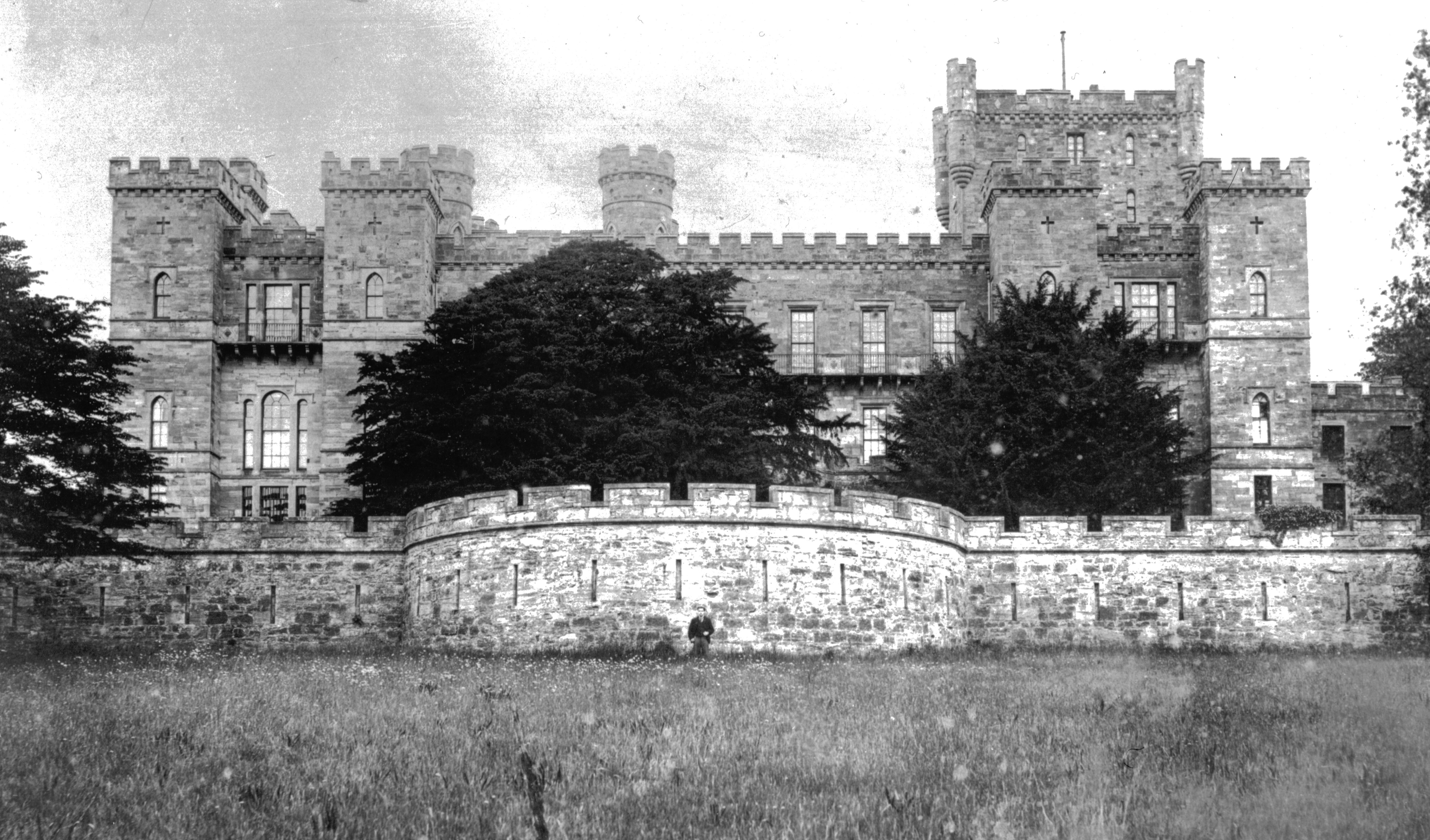 Loudoun Castle, Galston, East Ayrshire, Scotland, prior to the fire in the 20th century - also the famous Yew trees dating from the 16th Century.